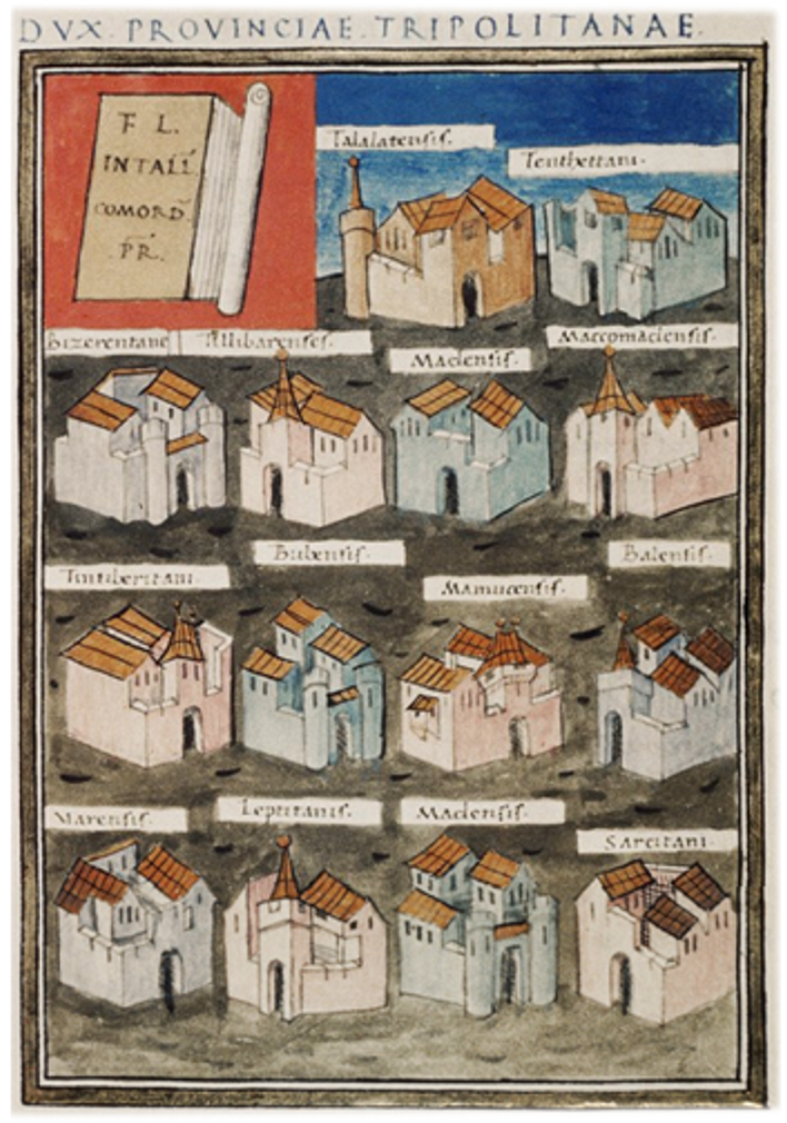 Dux provinciae Tripolitaniae from Notitia dignitatum